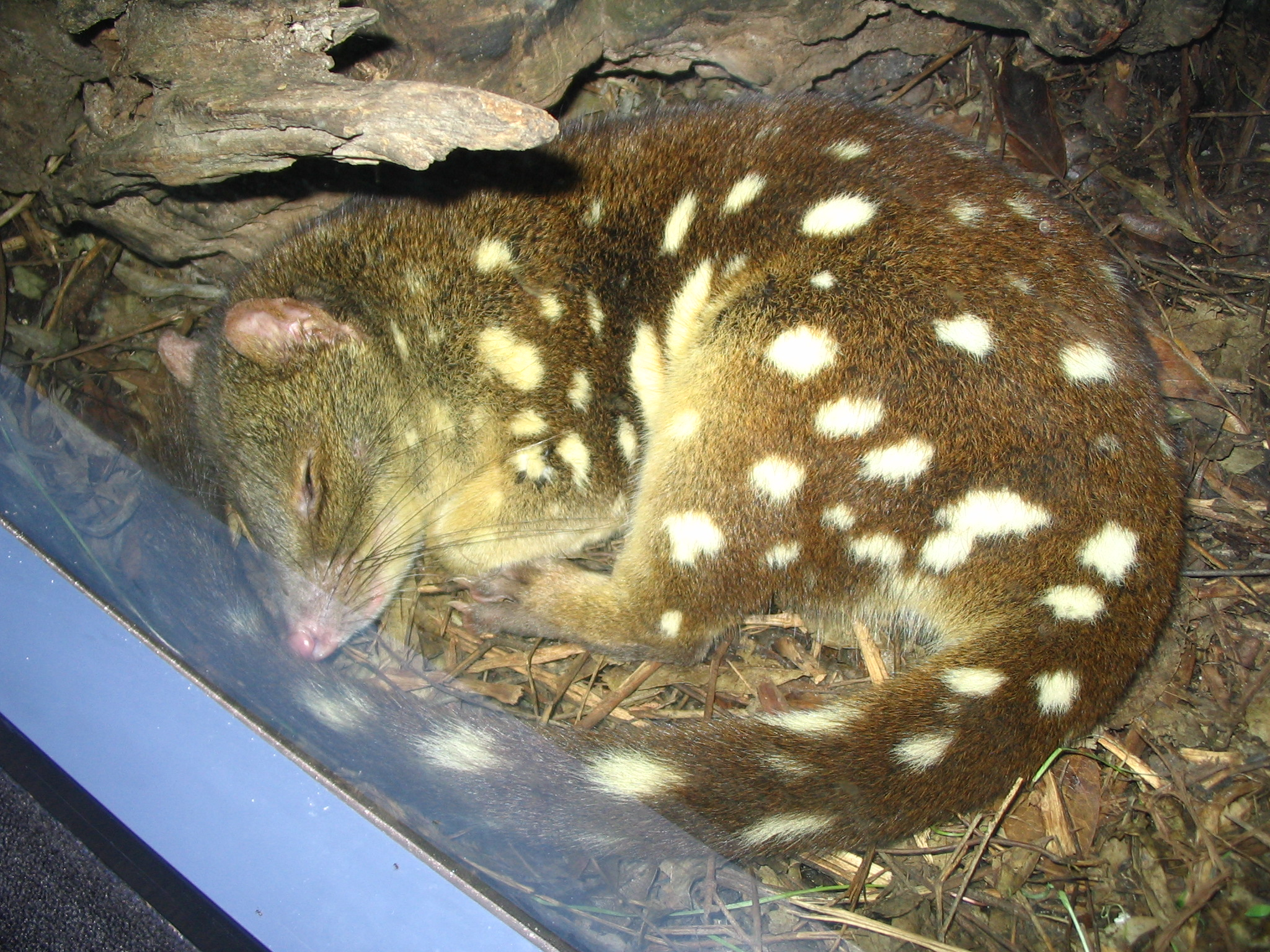 Spotted-tail quoll (Dasyurus maculatus) sleeping near the window of the nocturnal animals exhibit at Sydney Wildlife World.